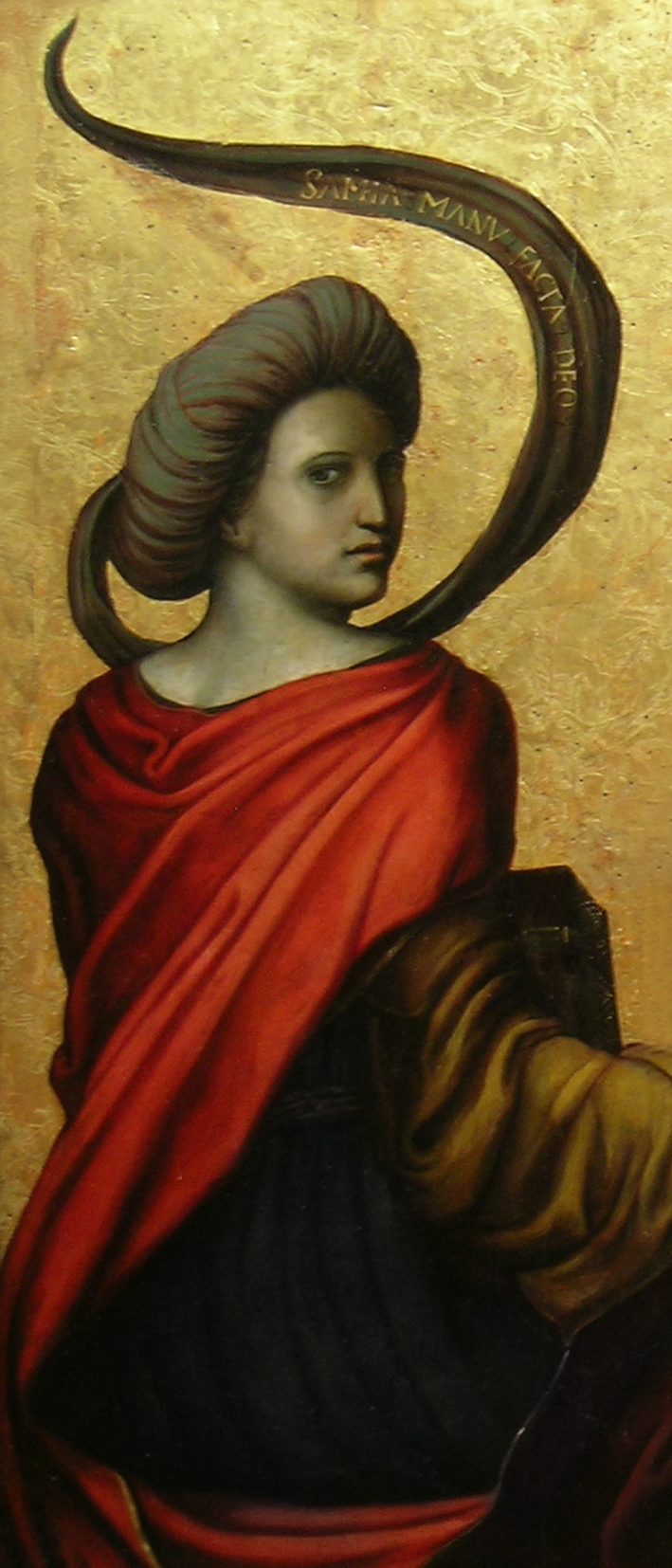 From the set "Prophets and Sibyls" by Juan Soreda, c.1530. Museum of San Gil. Atienza Аҧсшәа: Aus der Serie "Propheten und Sibyllen" von Juan Soreda, um 1530. Museum von San Gil. Atienza